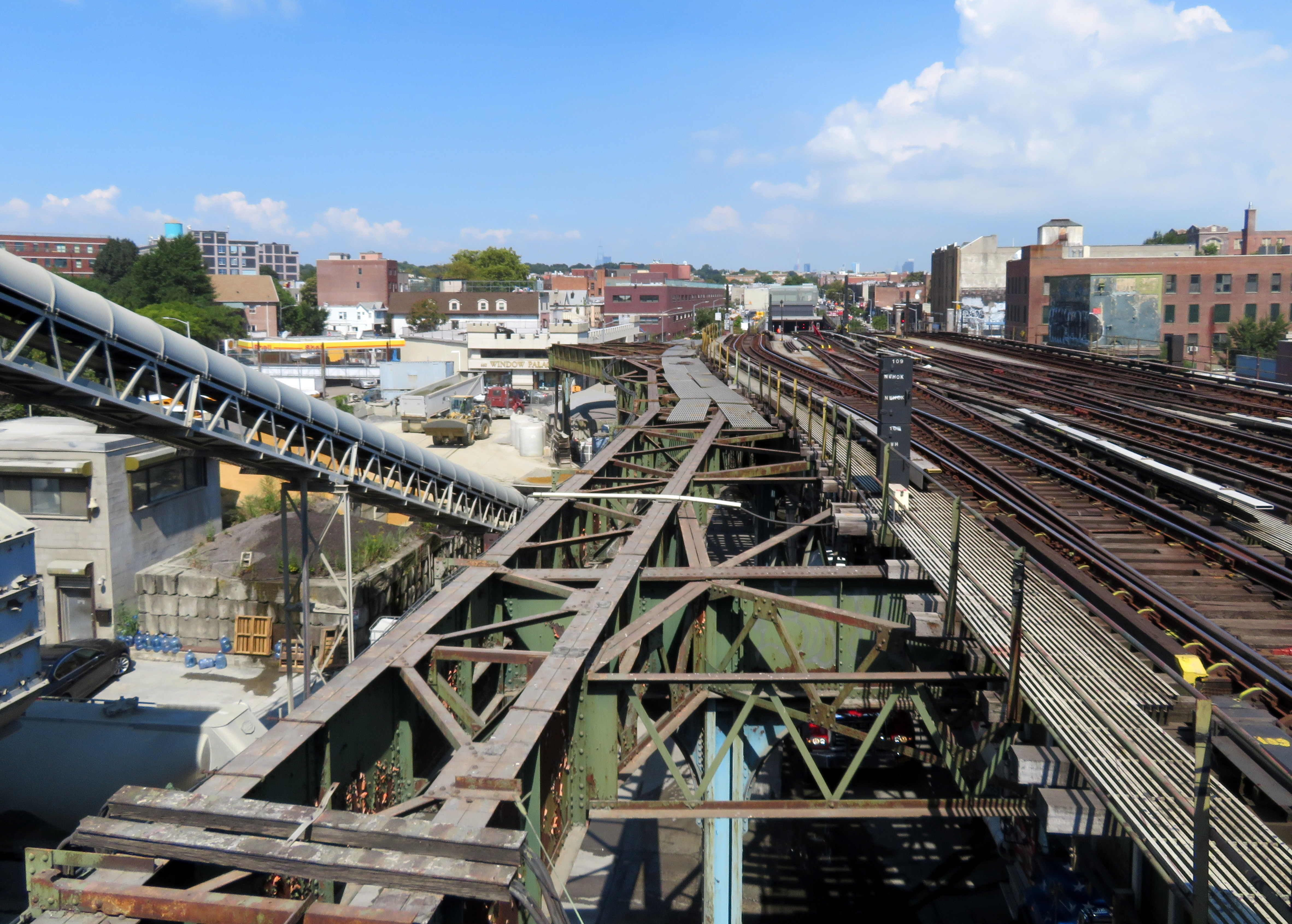 Culver Shuttle trackway, no longer used, at Ditmas Avenue station in September 2018